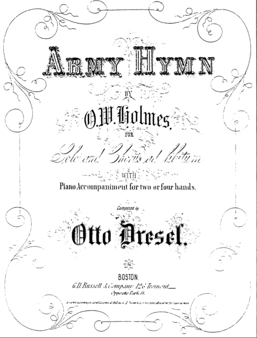 Cover of sheet music: Otto Dresel, "Army Hymn" (text by Oliver Wendell Holmes). Boston: G. D. Russell, 1863.